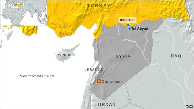 Border towns of Akcakale in southern Turkey; and Tell Abyad in the Ar-Raqqah Governorate of northern Syria.